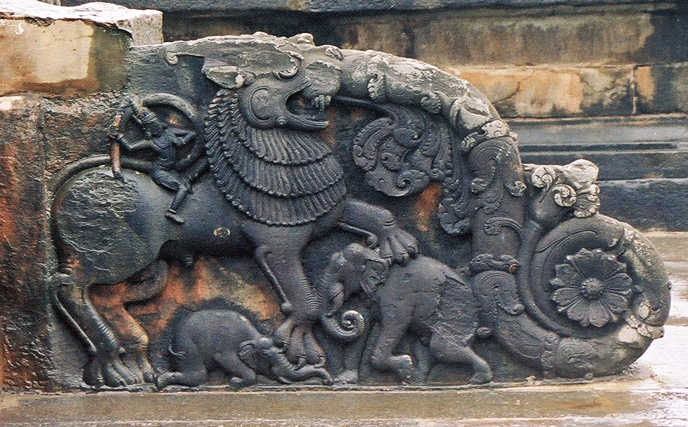 Thirpuranthakeshwara Temple (also called Tripurantakesvara Temple) in Balligavi, Shimoga district, Karnataka state, India